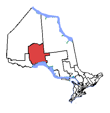 Map of the Thunder Bay—Superior North electoral district. Based on Earl Andrew's maps, created by SimonP.